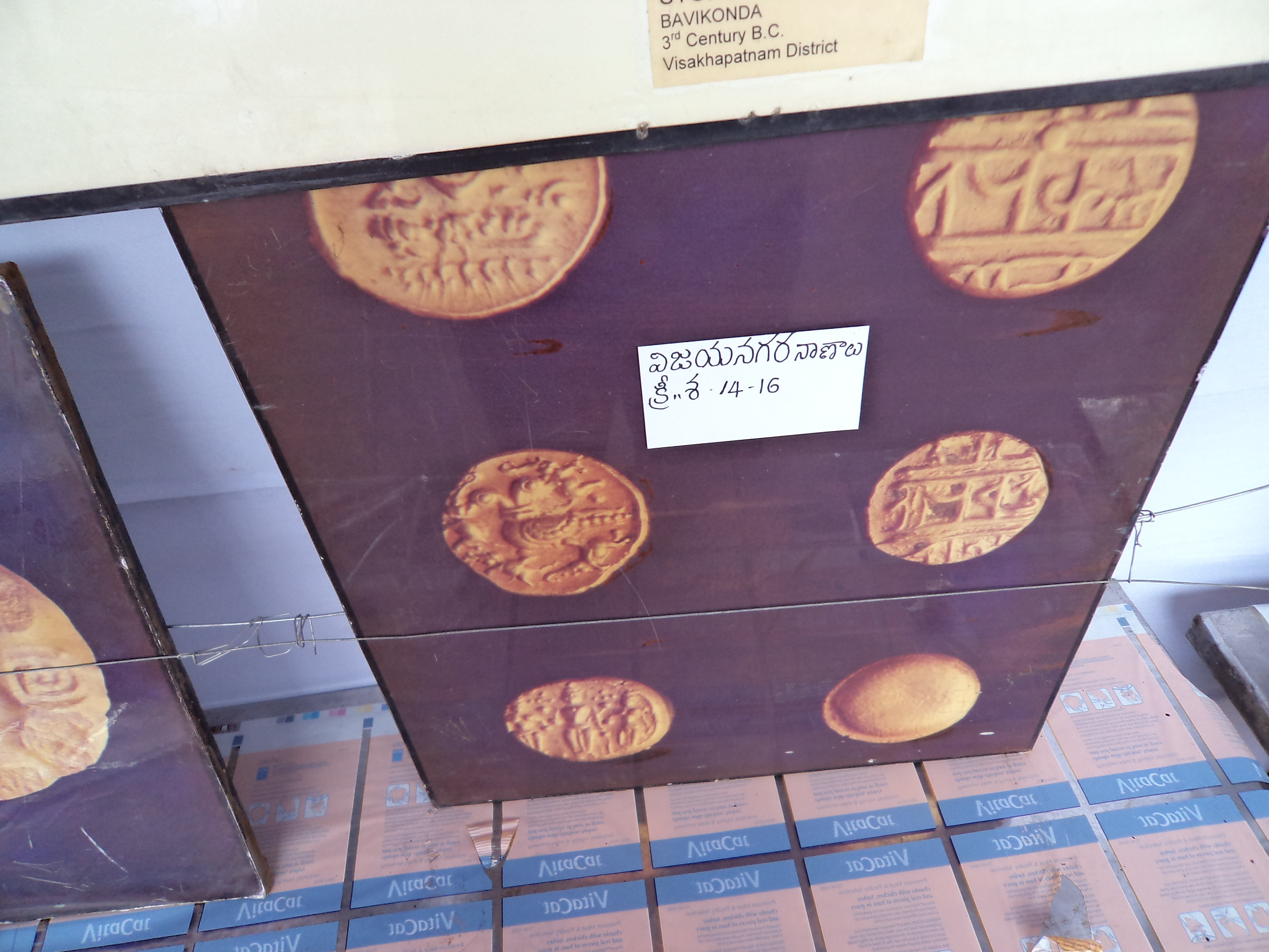 Coins of history Andhra Pradesh (Vijayanagara era)